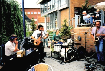 Rob Hoeke Group